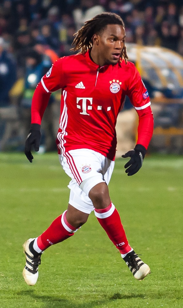 Renato Sanches with FC Bayern Munich in a Champions League game against FC Rostov.